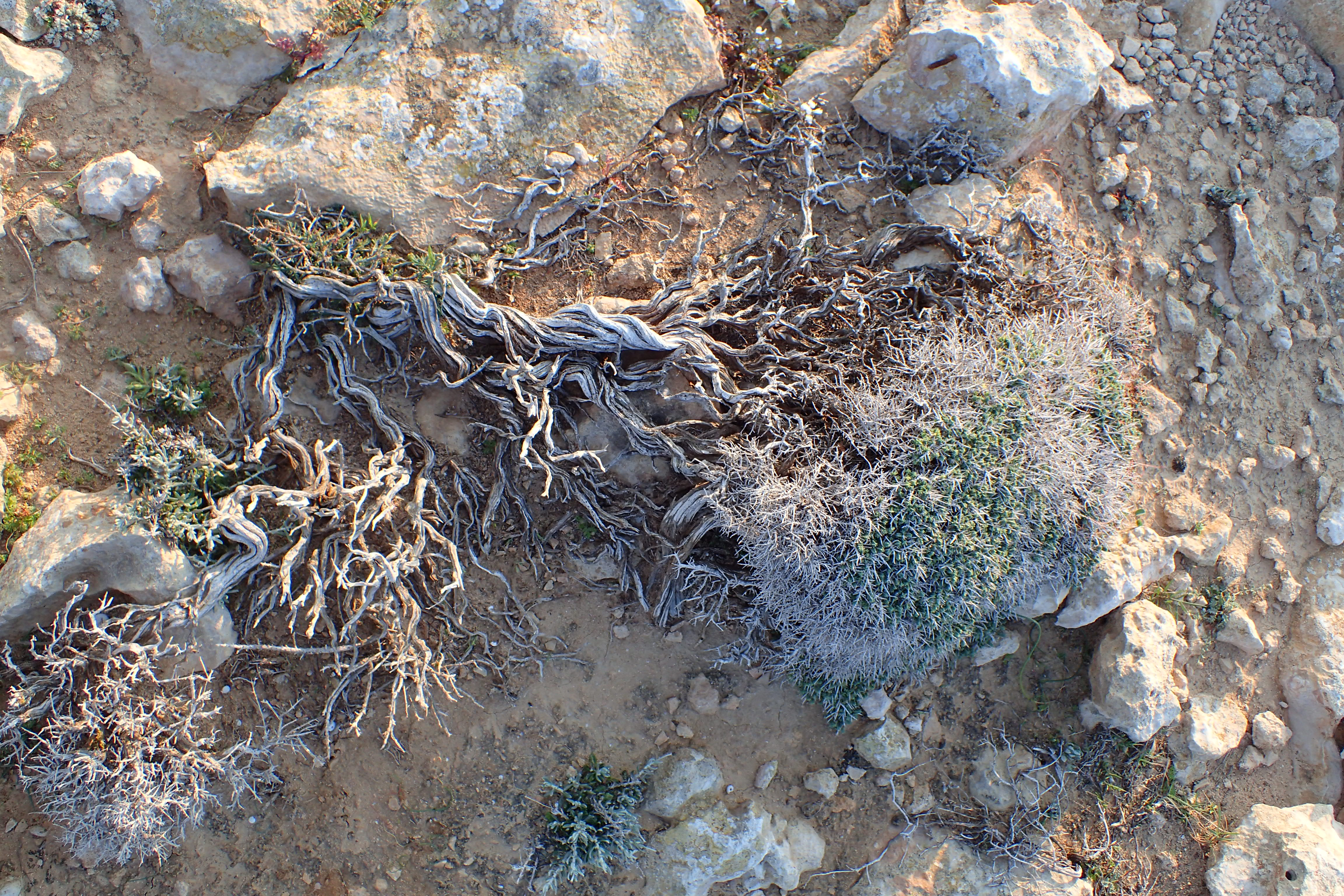 Thymbra capitata on Kavo Gkreko, Cyprus